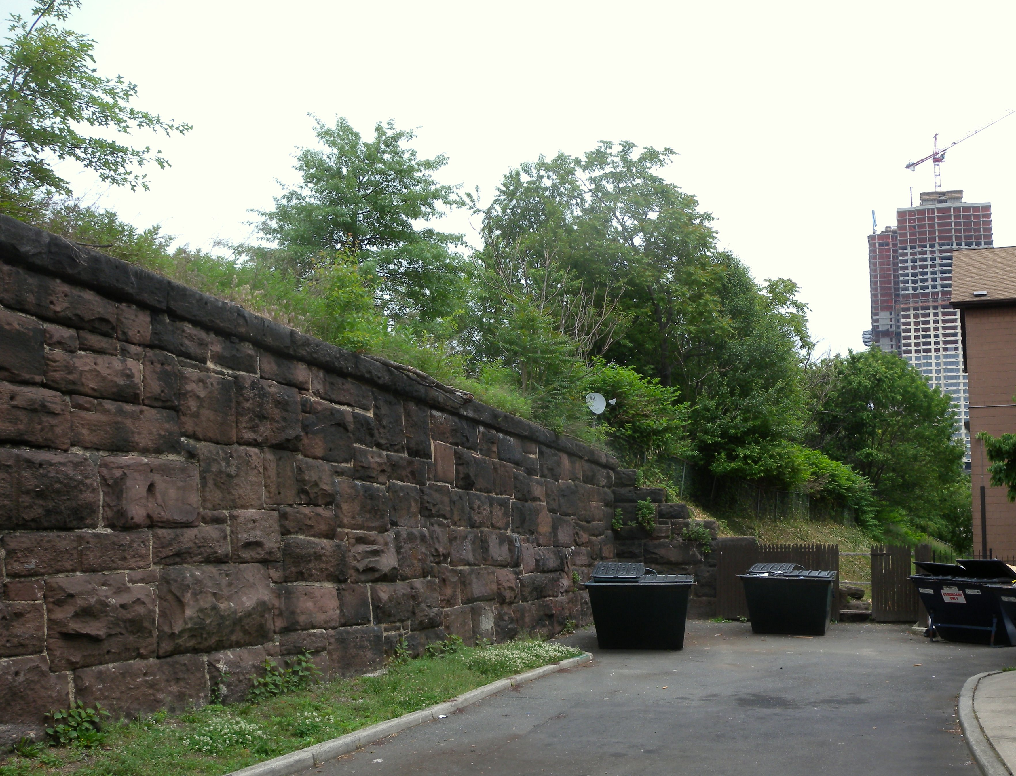 Looking east along an alley at southern wall of embankment on a cloudy afternoon.